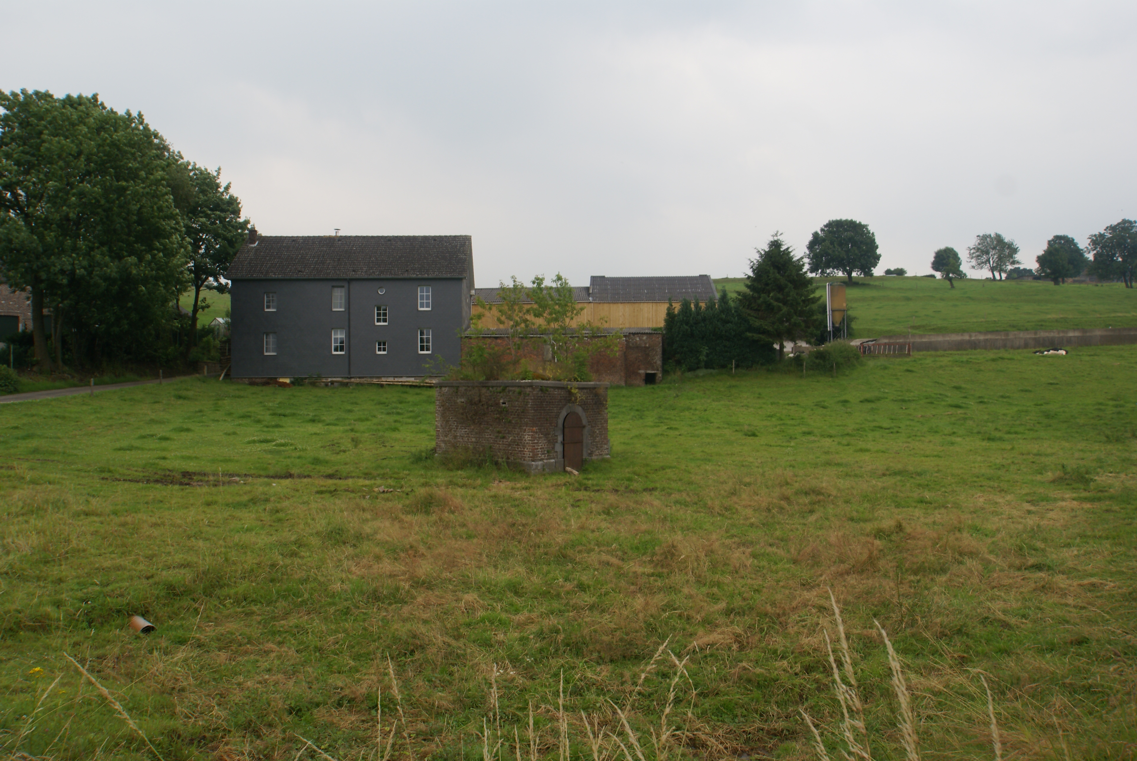 Henri-Chapelle (Belgium): Source of the Gulp river